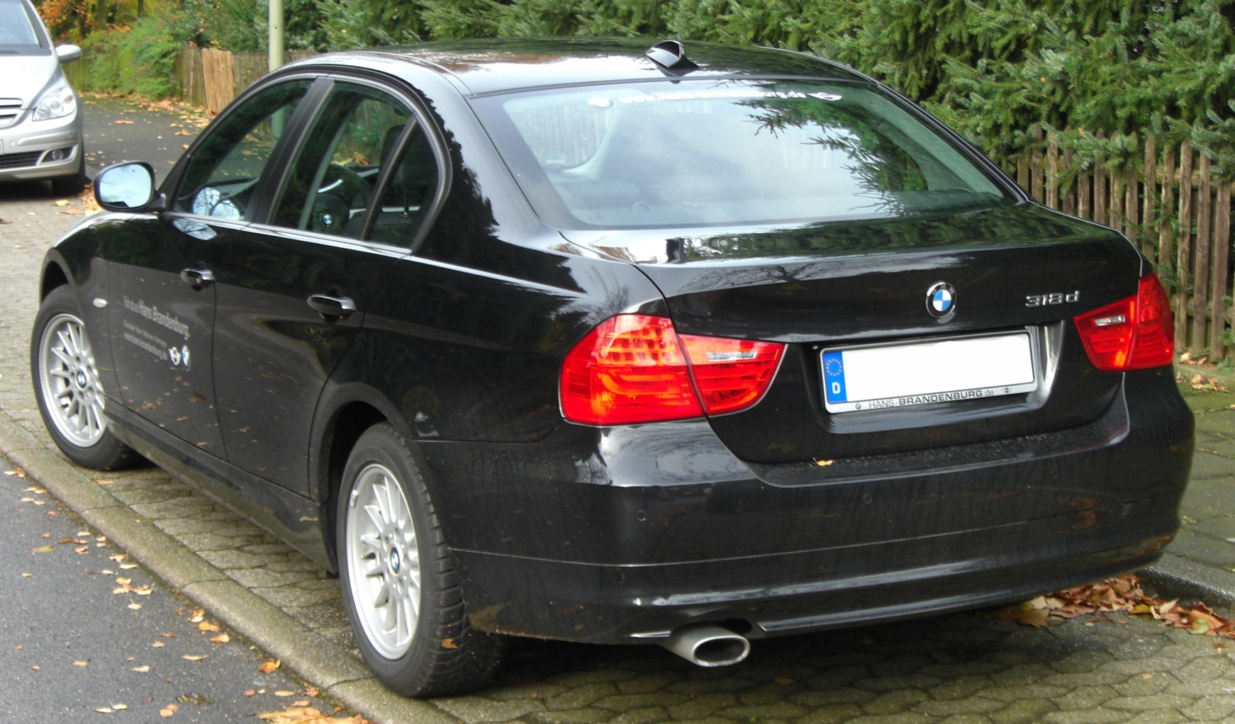 Description: BMW 318d E90 Facelift Source: Matthias Other Version(s)